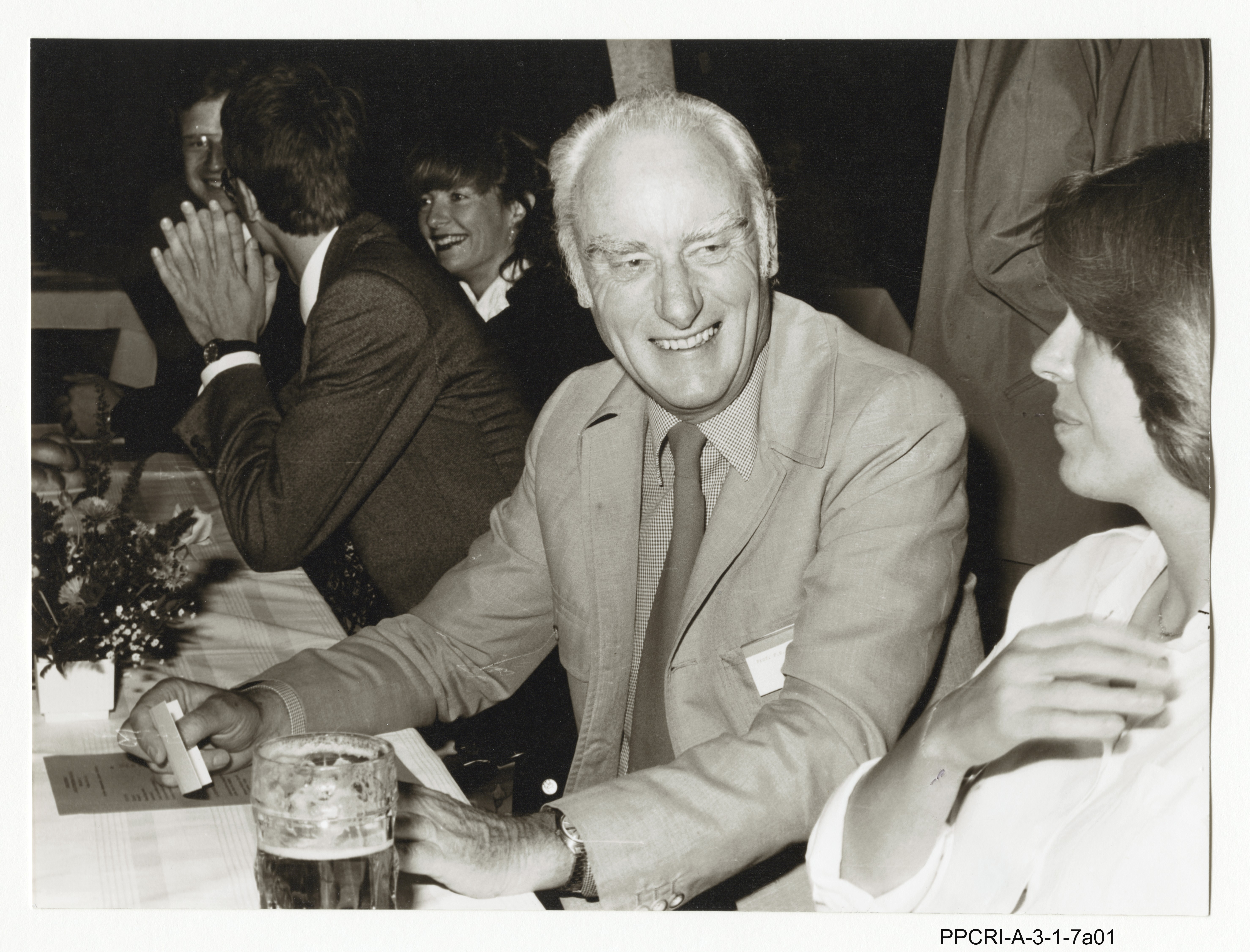 Photograph of Francis Crick at a dinner at the Nobel Prize Winners Conference in Lindau, Germany, 29 Jun - 3 Jul 1981 Archives & Manuscripts Keywords: Genetics; Francis Harry Compton Crick